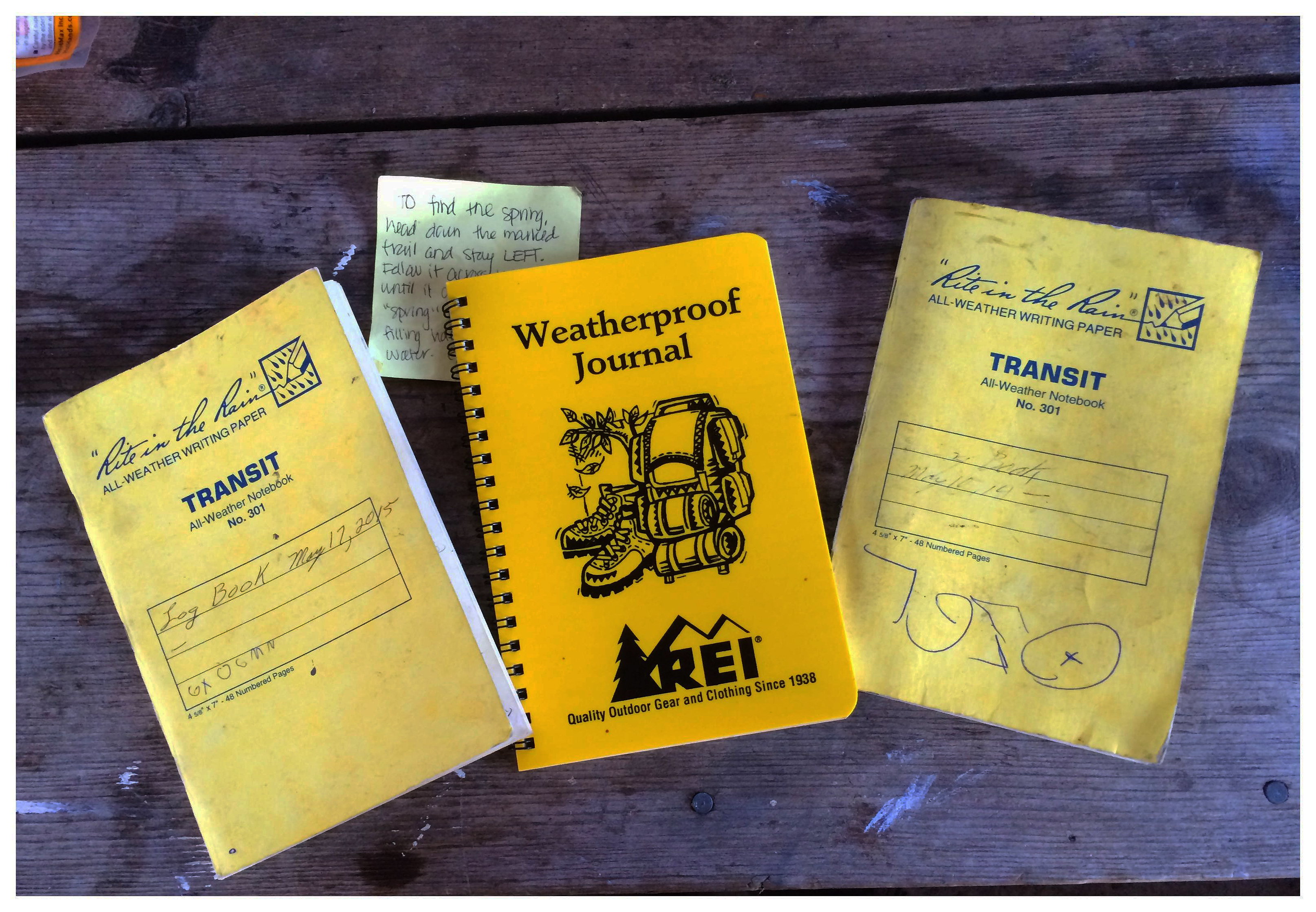 This Fire Protection Facility was staffed from 1918/1919 until 1964. A growing concern for fire protection in forested areas in the early 20th century resulted in the construction of lookouts and the placement of fire location devices on high sites with wide views throughout the northwest. Located on the Table Rock Trail, the original lookout was built in 1918 by the predecessors of the Clackamas-Marion Fire Protection Agency (C-MFPA) on top of 4338 foot elevation Pechuck. It consisted only of a rangefinder set upon a four log post stand. A small cabin of wood planks with a shake roof was built nearby to provide living quarters for personnel. Until 1932, the only access to the lookout site was by way of the Table Rock Trail through what is now Table Rock Wilderness. A volunteer organization, the Pechuck Look Outs, based in Molalla has partnered with BLM to assist in management of the lookout which is open to the public for visitation and overnight use. The establishment of the National Historic Lookout Register took place in 1990 and the World Lookout Register in 1992. To learn more about this amazing piece of Oregon history head on over to: To learn more about the Table Rock Wilderness head to